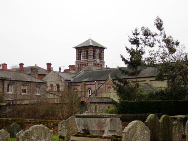 View from St Mary's parish churchyard, East Bergholt, Suffolk, to the former convent chapel of the Old Hall